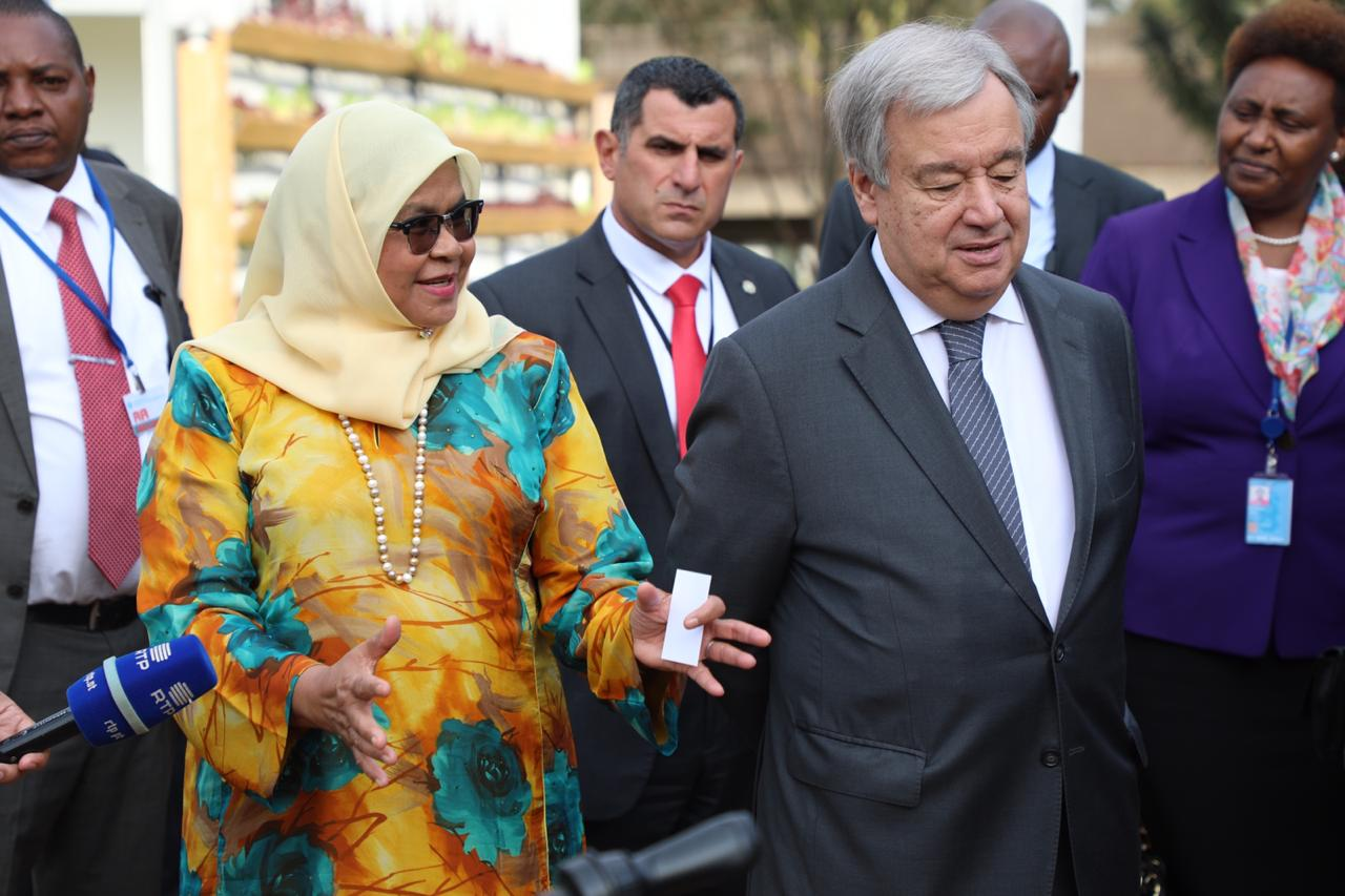 Maimunah Mohd Sharif UN-Hbaitat Executive Director and Antonio Guterres UN Secretary-General